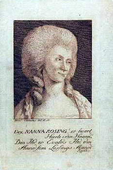 Portrait of Johanne Cathrine Rosing (1756-1853)